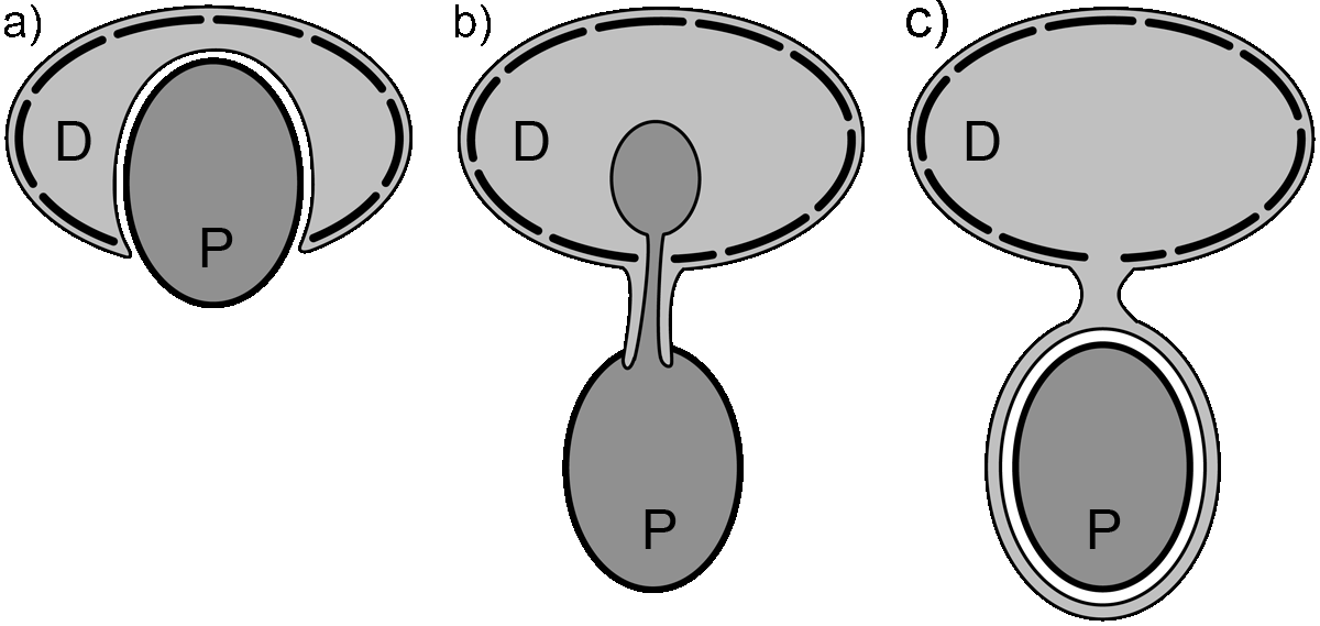 General feeding types of dinoflagellates: a) phagocytosis, b) peduncle feeding, c) pallium feeding. Abr.: D: dinoflagellate, P: Prey.